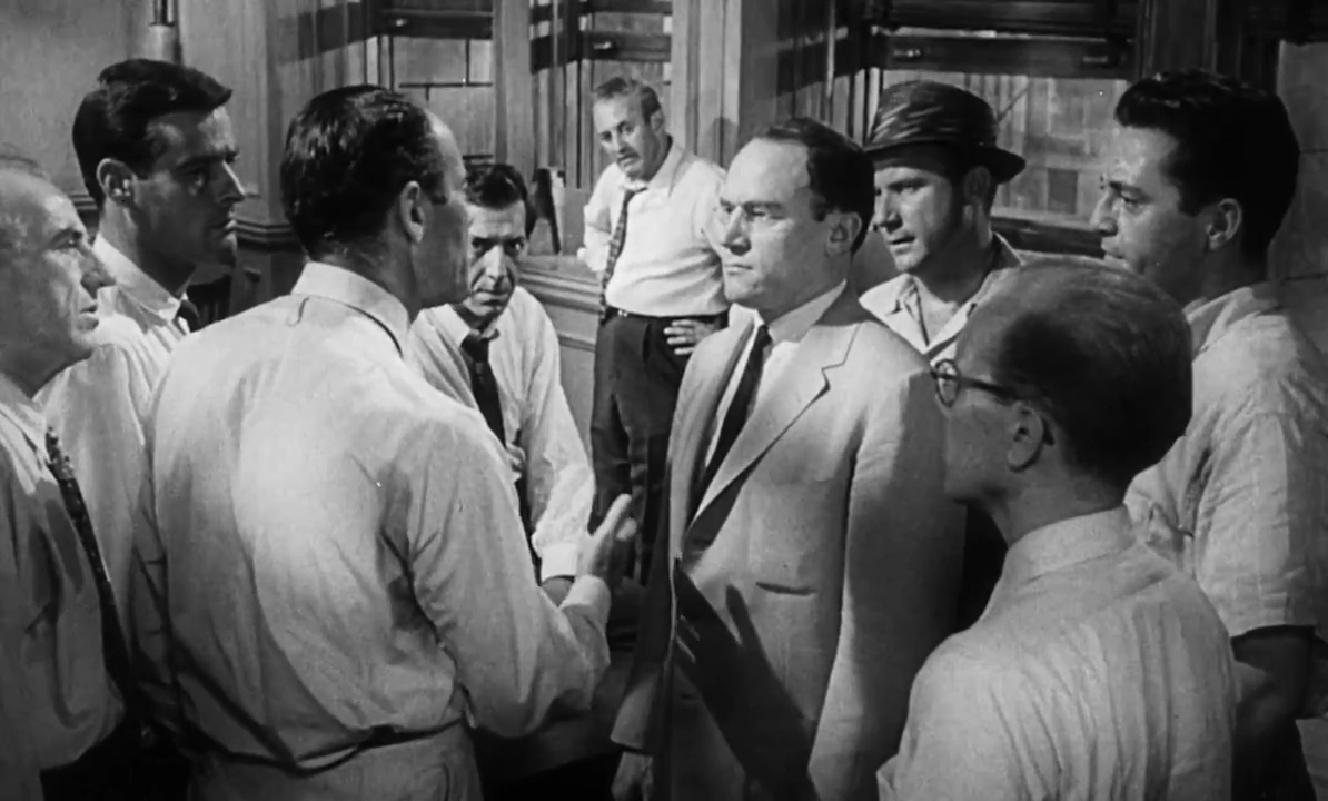 Moviescene from the trailer of Twelve Angry Men